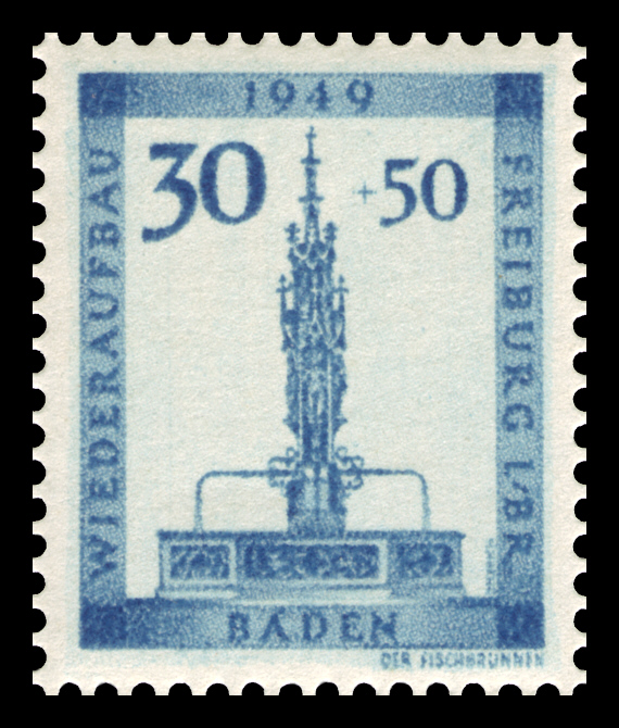 French occupied zone, Baden, reconstruction of Freiburg Ausgabepreis: 30+50 Pfennig First Day of Issue / Erstausgabetag: 24. März 1949 Michel-Katalog-Nr: 41A (Französische Besetzungszone, Baden)